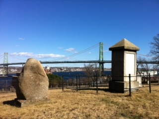 Monument to HMS Shannon and USS Chesapeake - CFB Halifax